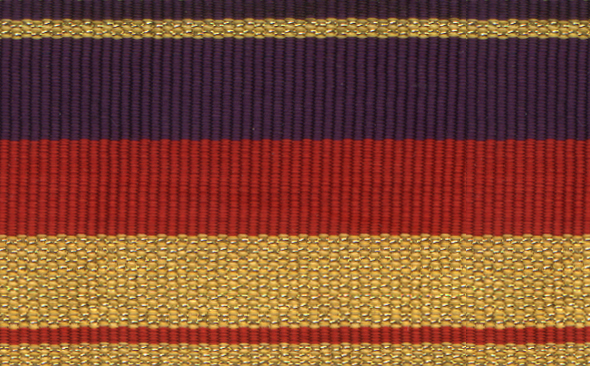 Coulors of the Viennese fraternity Burschenschaft Bruna Sudetia (german fraternity)